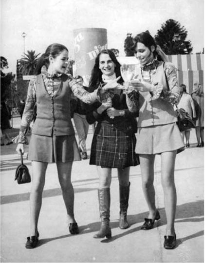 Miniskirts in Buenos Aires. General Archive of the Nation